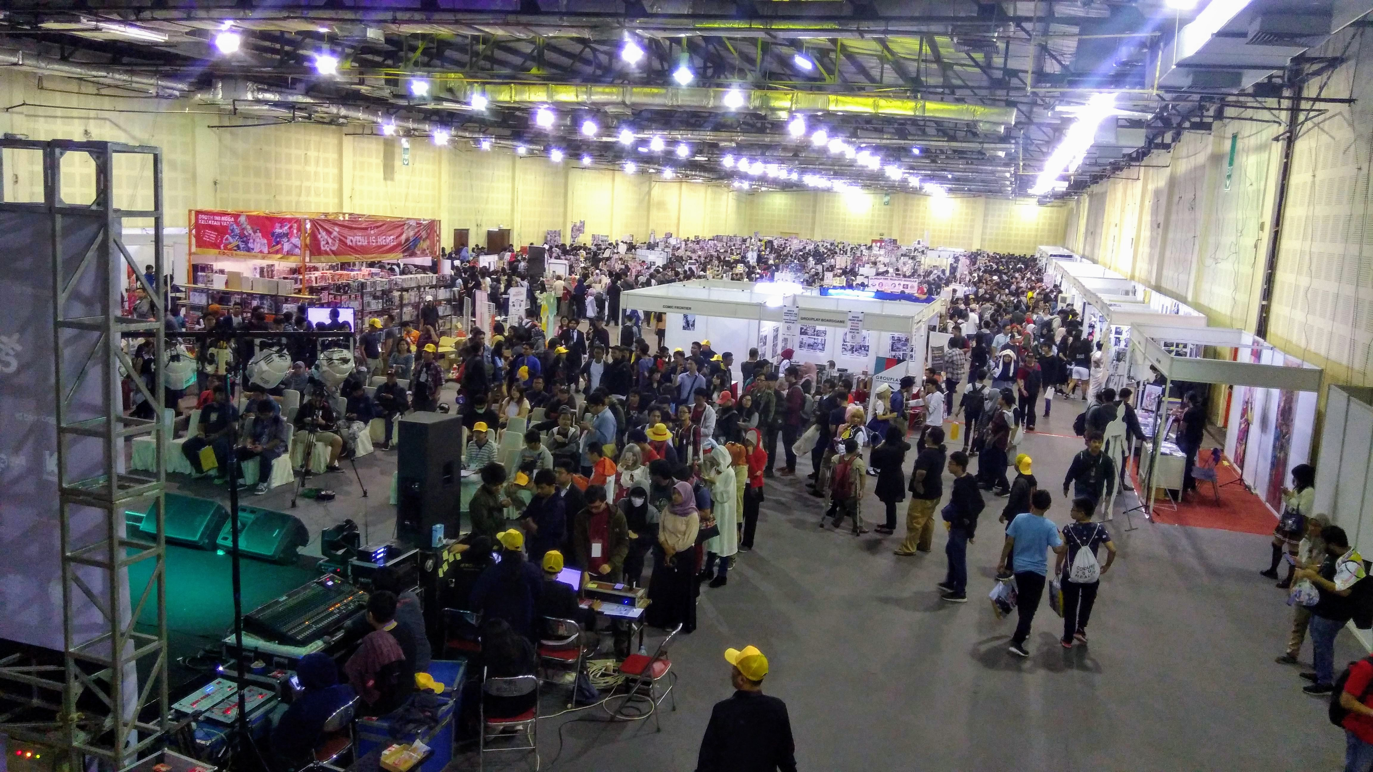 A photo showing the crowd on day 1 of Comic Frontier 12.